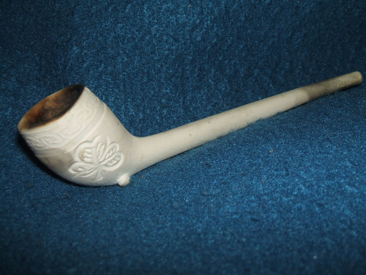 Irish "Knockcroghery" clay tobacco pipe (duidín)